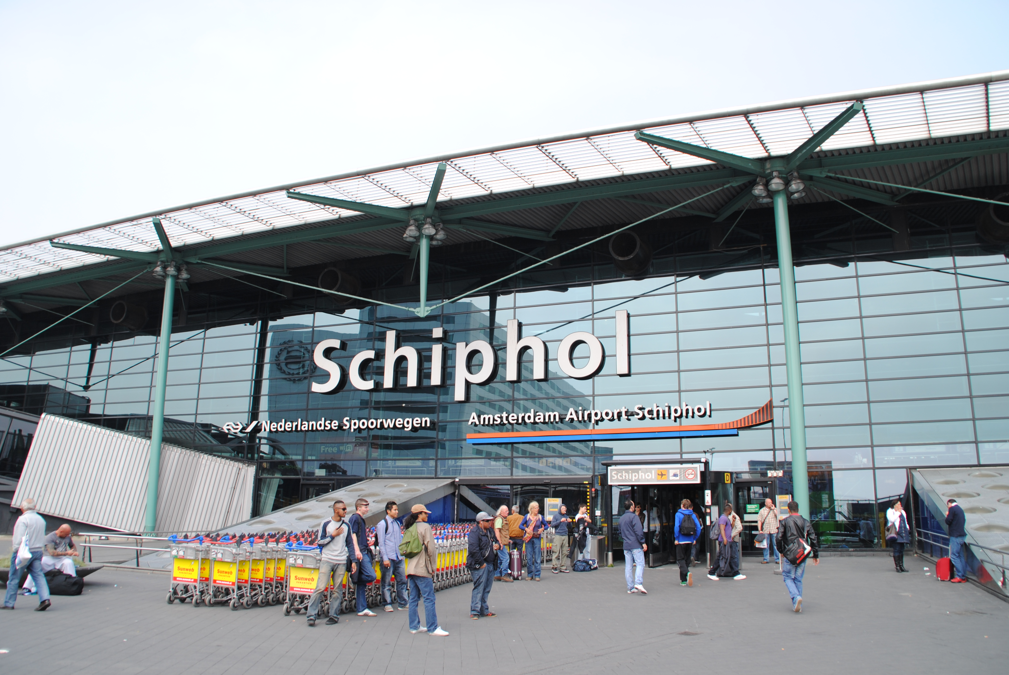 Amsterdam Schiphol Airport entrance